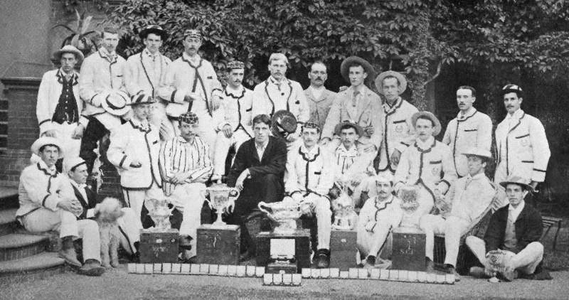 Trinity Hall, Cambridge Henley winners - B&W photograph - 1887